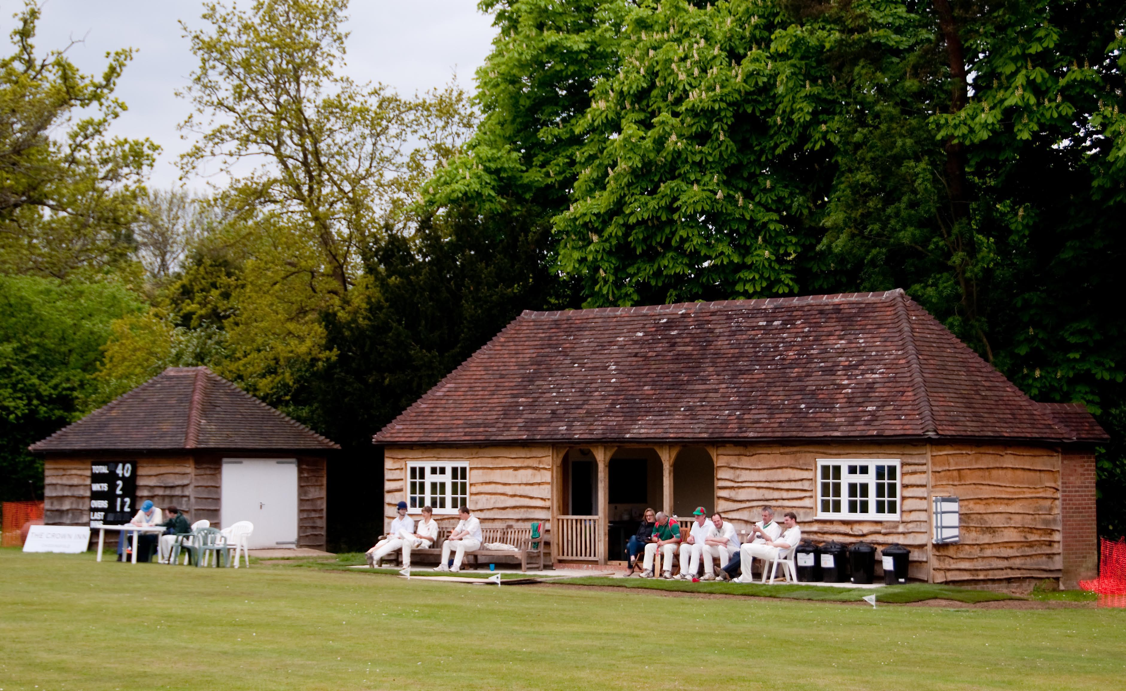 The refurbished Pavilion in use May 2013 with the newly built ground store to the left.